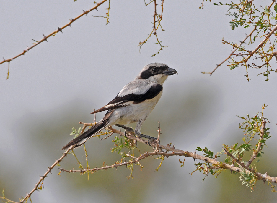 Lanius meridionalis Spotted at Tal Chhapar Black Buck Sanctuary. This common inhabitant of dry and semi arid regions of India is very common at the Sanctuary. The dry scrub and wasteland interspersed with grassland and patches is ideal habitat for this 'Butcher Bird'. The abundant supply of locusts, lizards and other prey which attracts the hoards of Buzzards and other raptors also provide good supply of food for the shrikes.